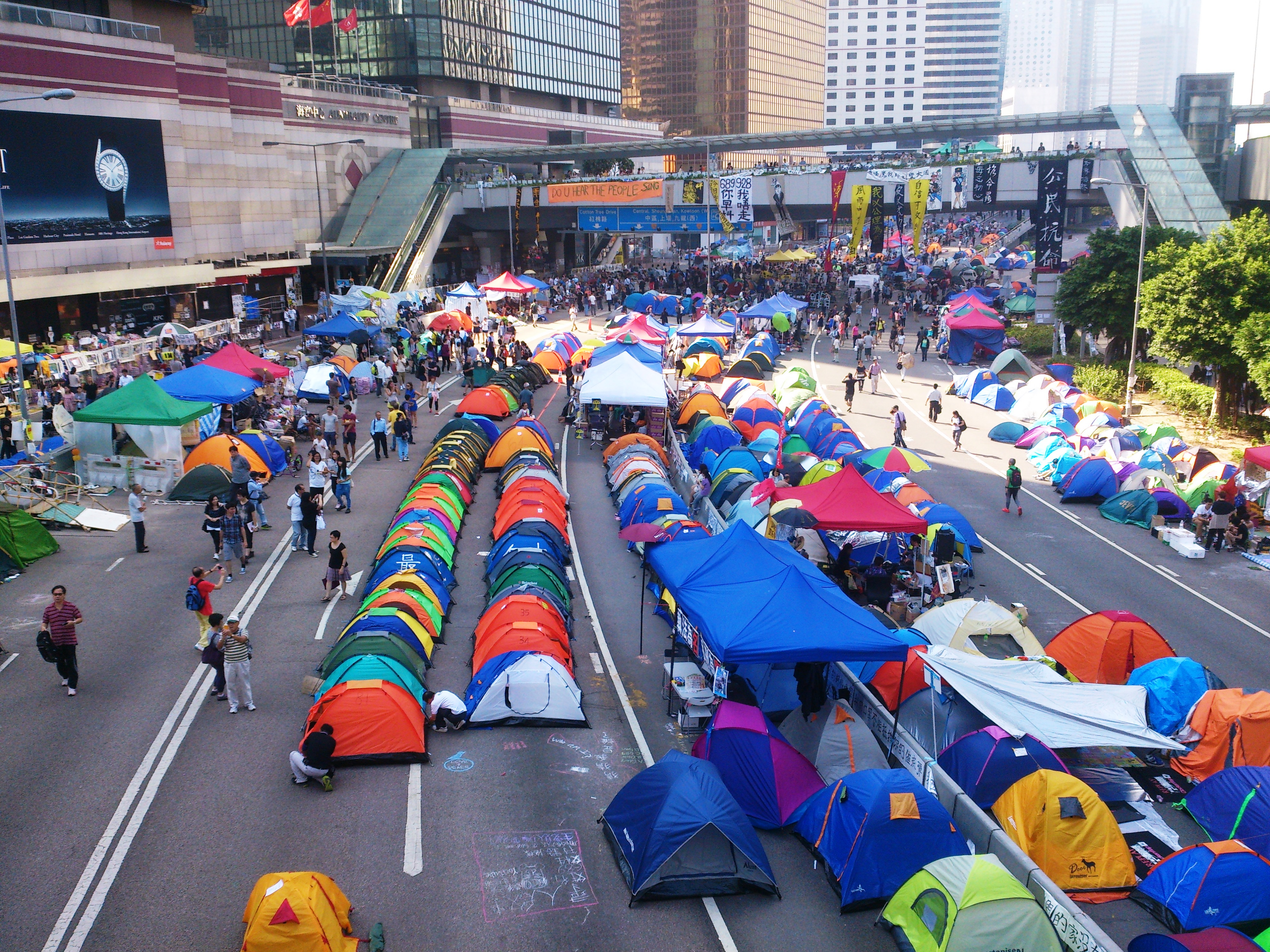 Tents on Harcourt Road outside Central Government Offices on 2014-10-18 (5)